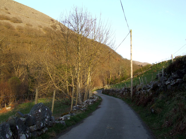 View looking up Valley road View looking South East up Valley road above Llanfairfechan, in evening light